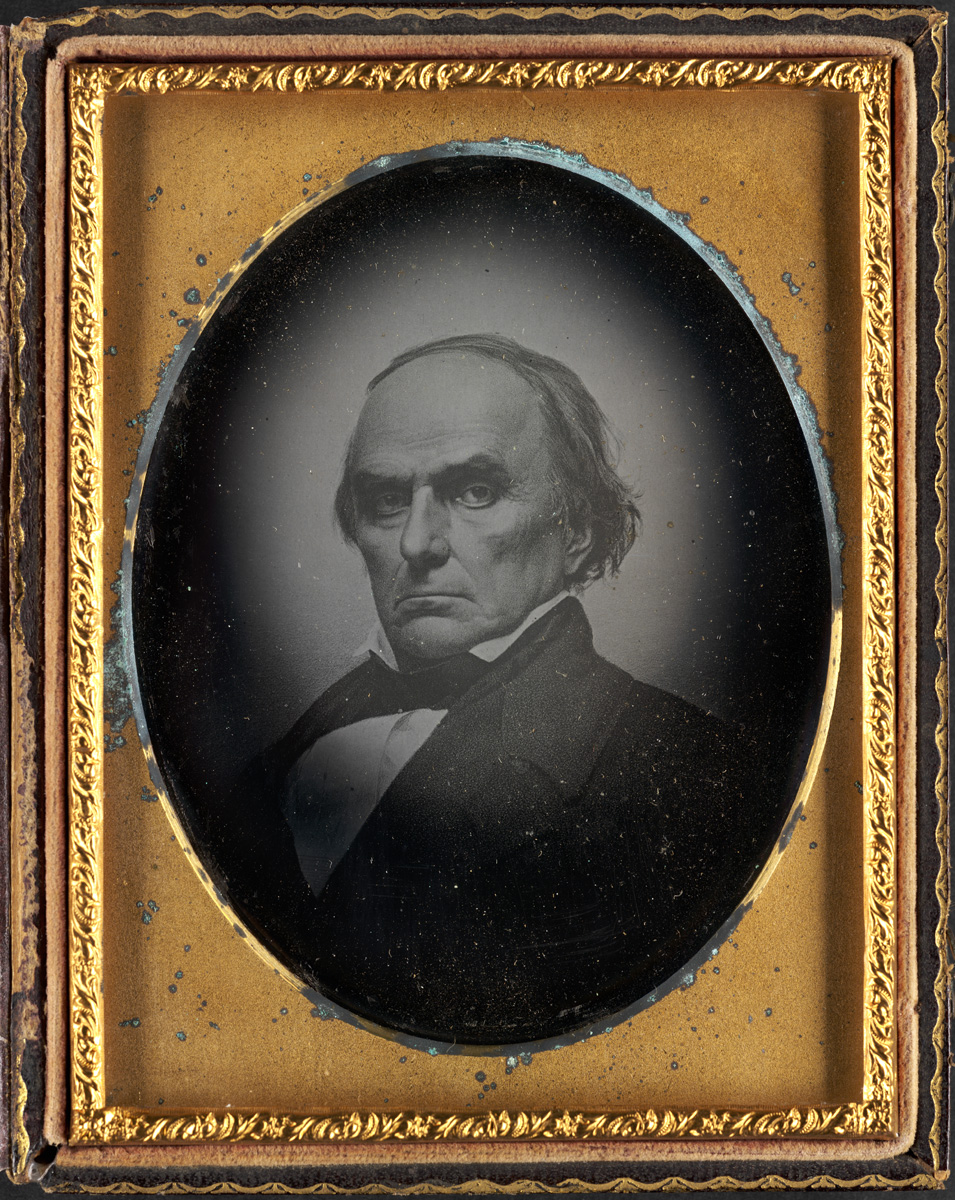 Daguerreotype photograph of Daniel Webster by John Adams Whipple. Dimensions (in case): 12 × 9.5 cm (4.7 × 3.7 in). Original description by Boston Public Library: BPLDC no.: 07_05_000010 Call no.: Cab.G.3.21 Title: Daniel Webster Creator: Whipple, John Adams, 1822-1891; John A. Whipple Studio Date: 1847 (approximate) Publisher: [Boston] : [John A. Whipple Studio] Extent: 1 photograph : quarter plate daguerreotype ; in case 12 x 9.5 cm. Genre: Daguerreotypes; Portraits Notes: Taken during the same sitting as image referenced in: Pfister, Facing the Light, no. 76A. Subjects: Webster, Daniel, 1782-1852 BPL Department: Rare Books Department